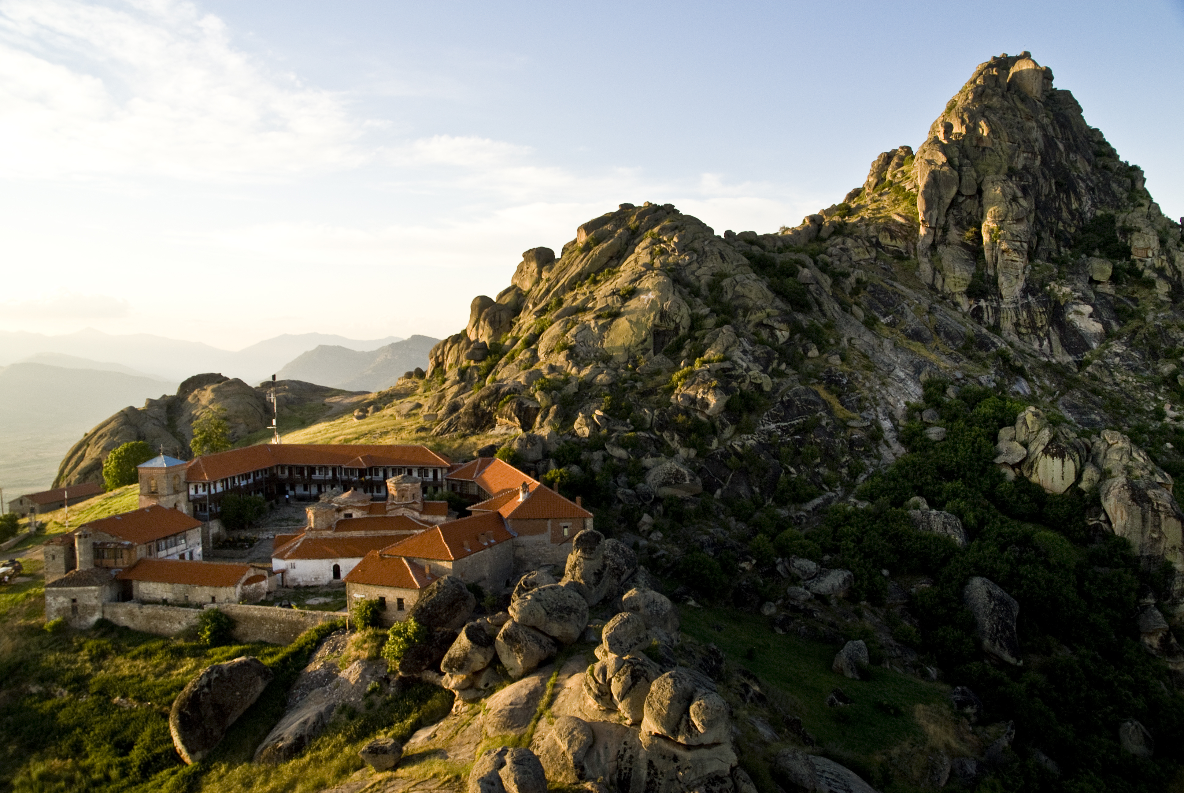 Treskavec Monastery, Prilep, Macedonia